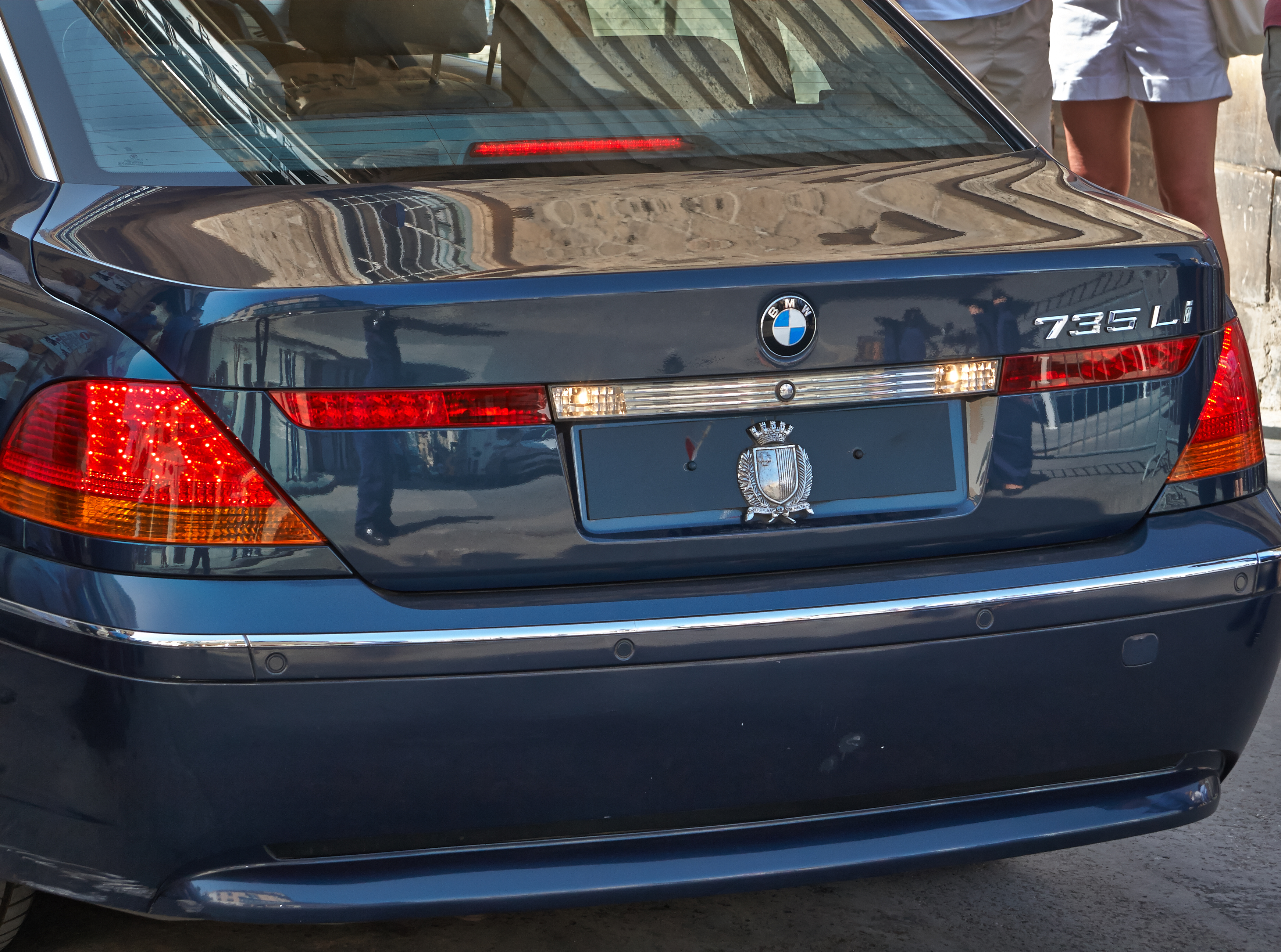 license plate of the president of Malta in Valletta